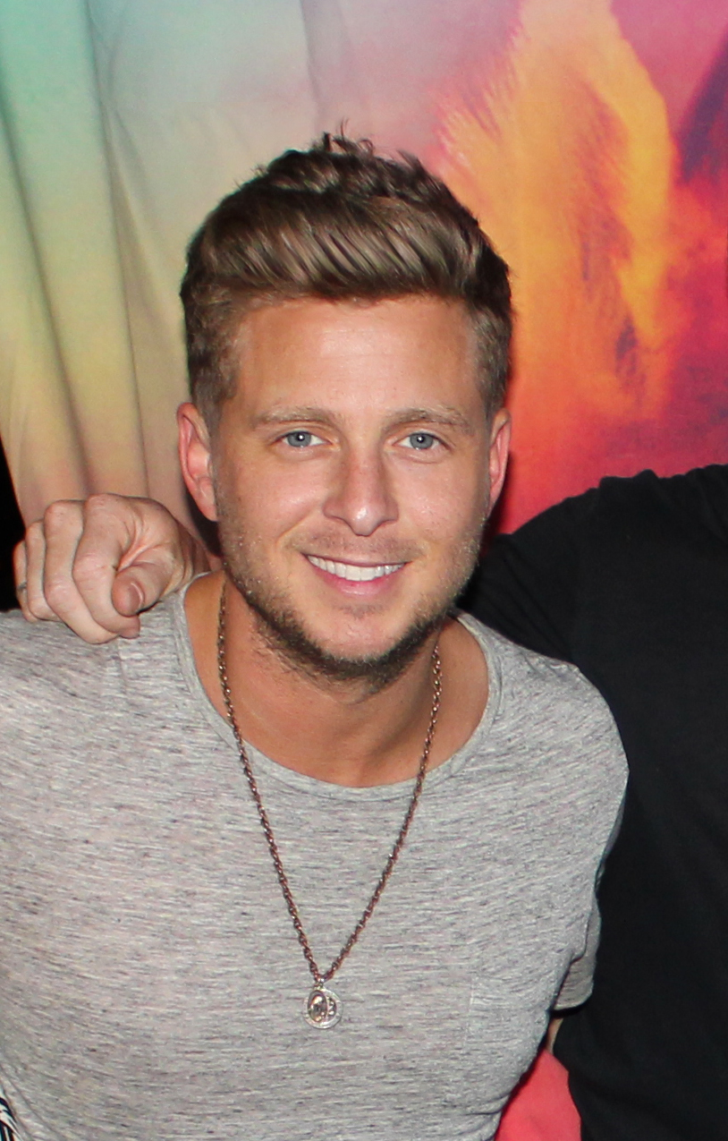 Ryan Tedder of OneRepublic in a photocall, summer 2013